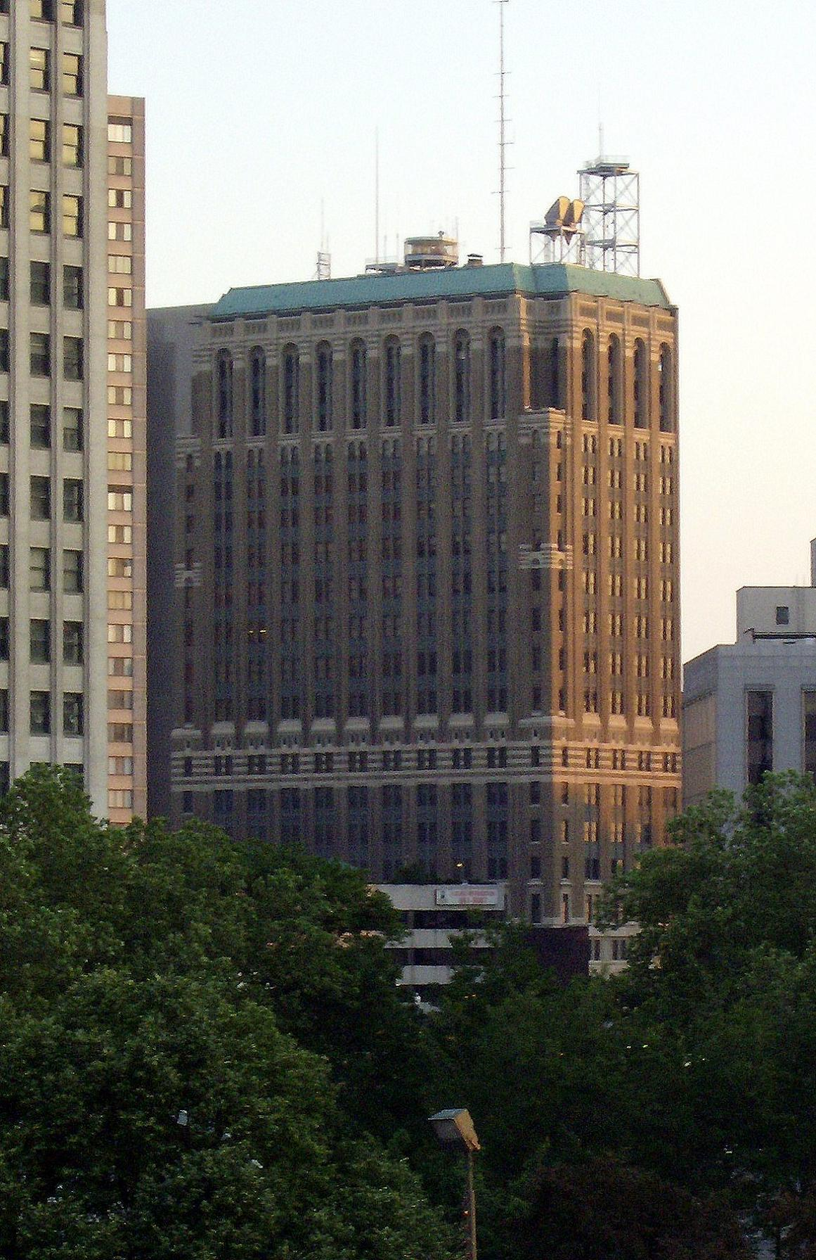 self made